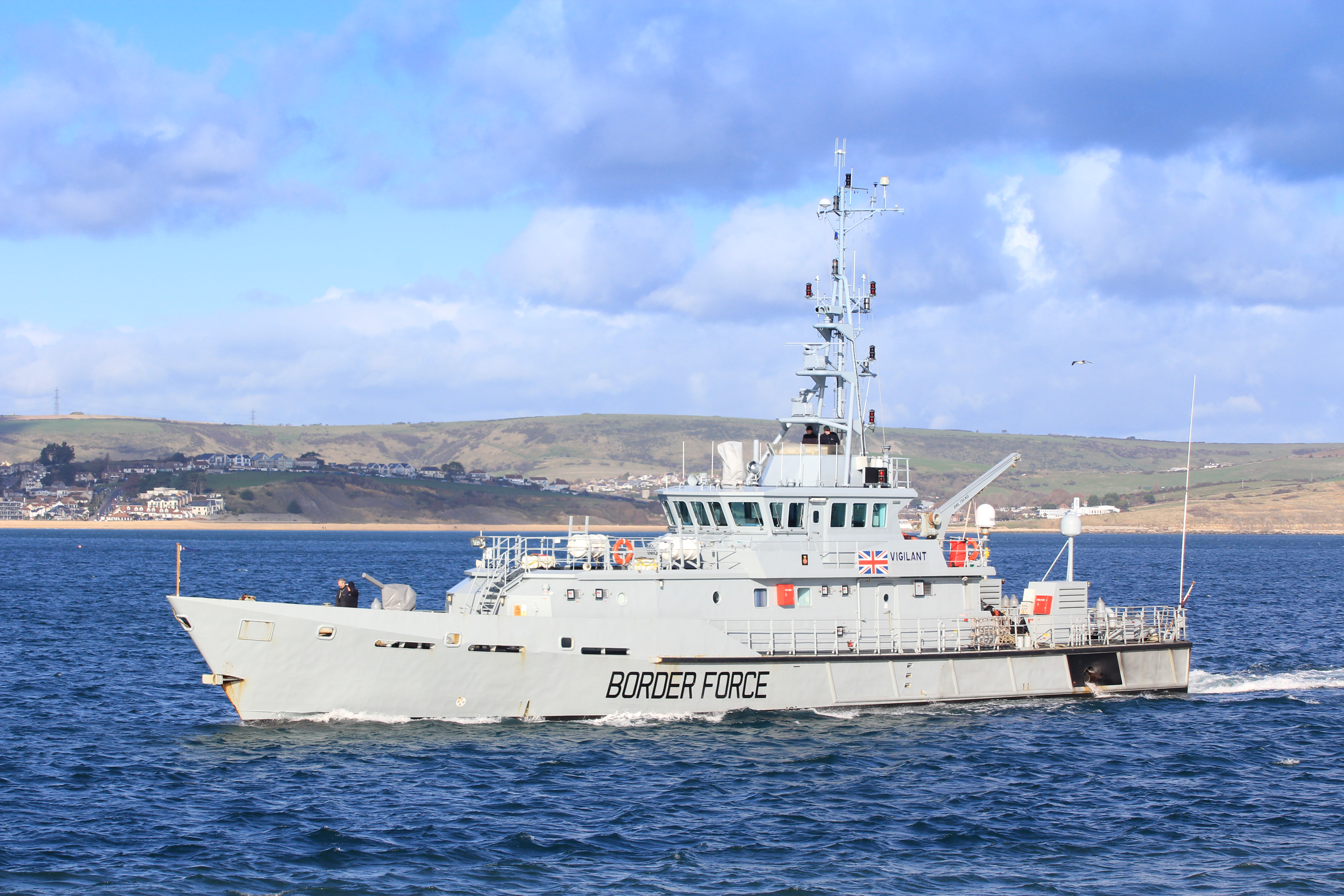 UK Border Force cutter Vigilant entering Weymouth Harbour, Dorsetshire, UK, late afternoon on November 5th 2017. Image uploaded by me User:George.Hutchinson from a photograph taken by and supplied by Brian Burnell. Wikipedia editors are reminded that the copyright remains with the photographer, and that the terms of the GFDL/CC-BY-SA license that allow editors to reuse this image apply to Wikipedia editors also, as they do to other reusers of this image. Breaches of the licence terms are not only unlawful, but are also antisocial, in that breaches discourage photographers from making their images freely available to everyone without payment. Non-Wikipedia users are requested to advise Brian Burnell of its use other than on Wikipedia.